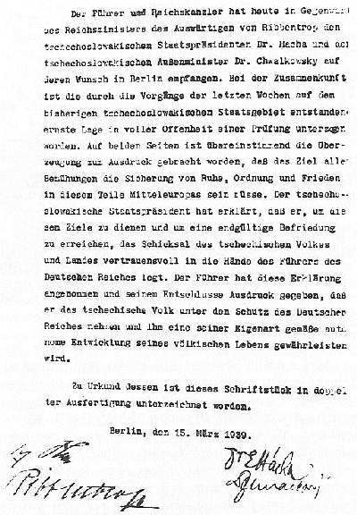 Declaration from 15th March 1939.